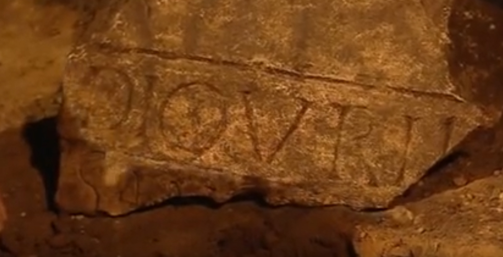 This is the stone found by the TV show Time Team in 2001.